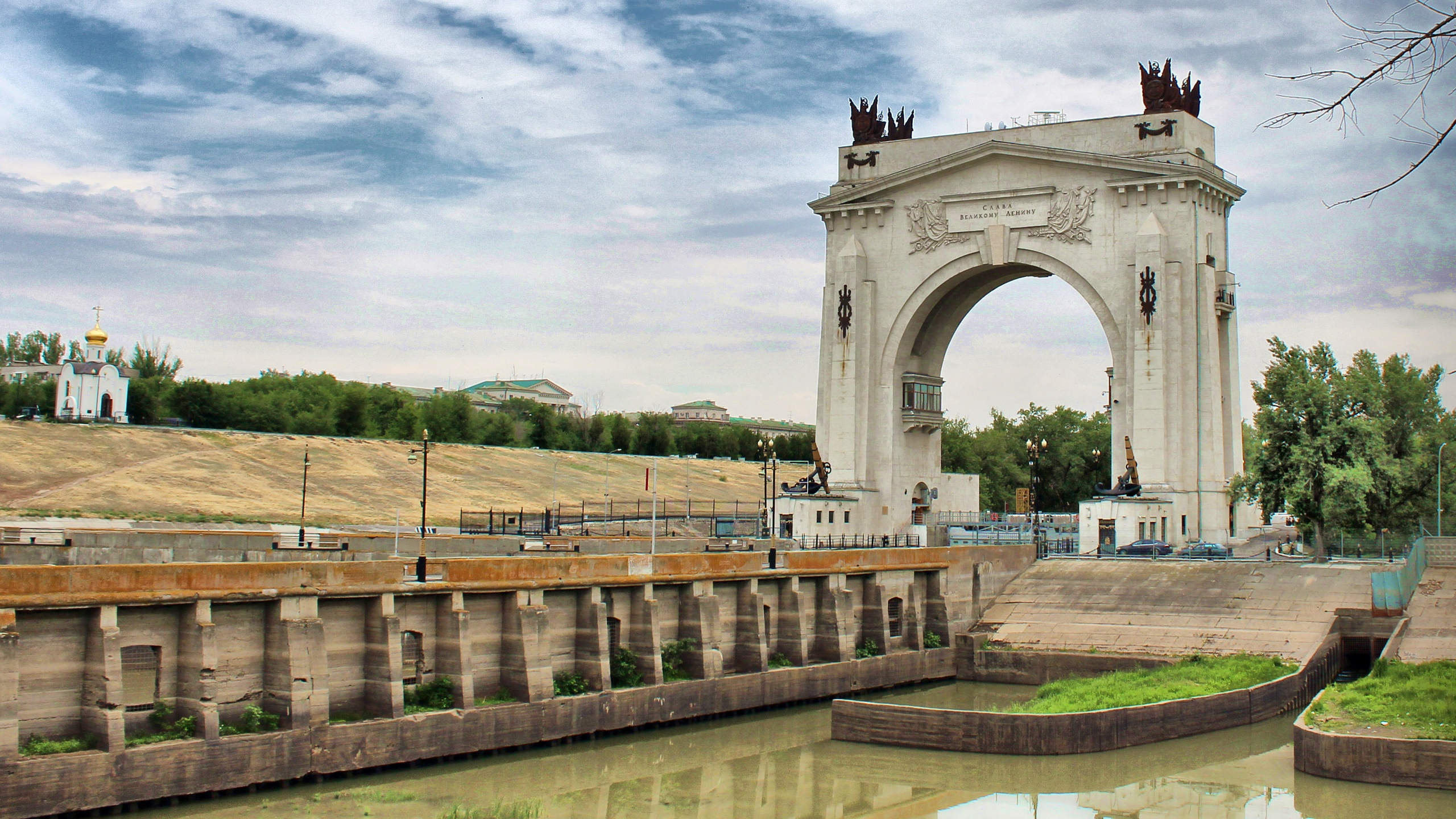 Lenin Volga–Don Shipping Canal Kanalı